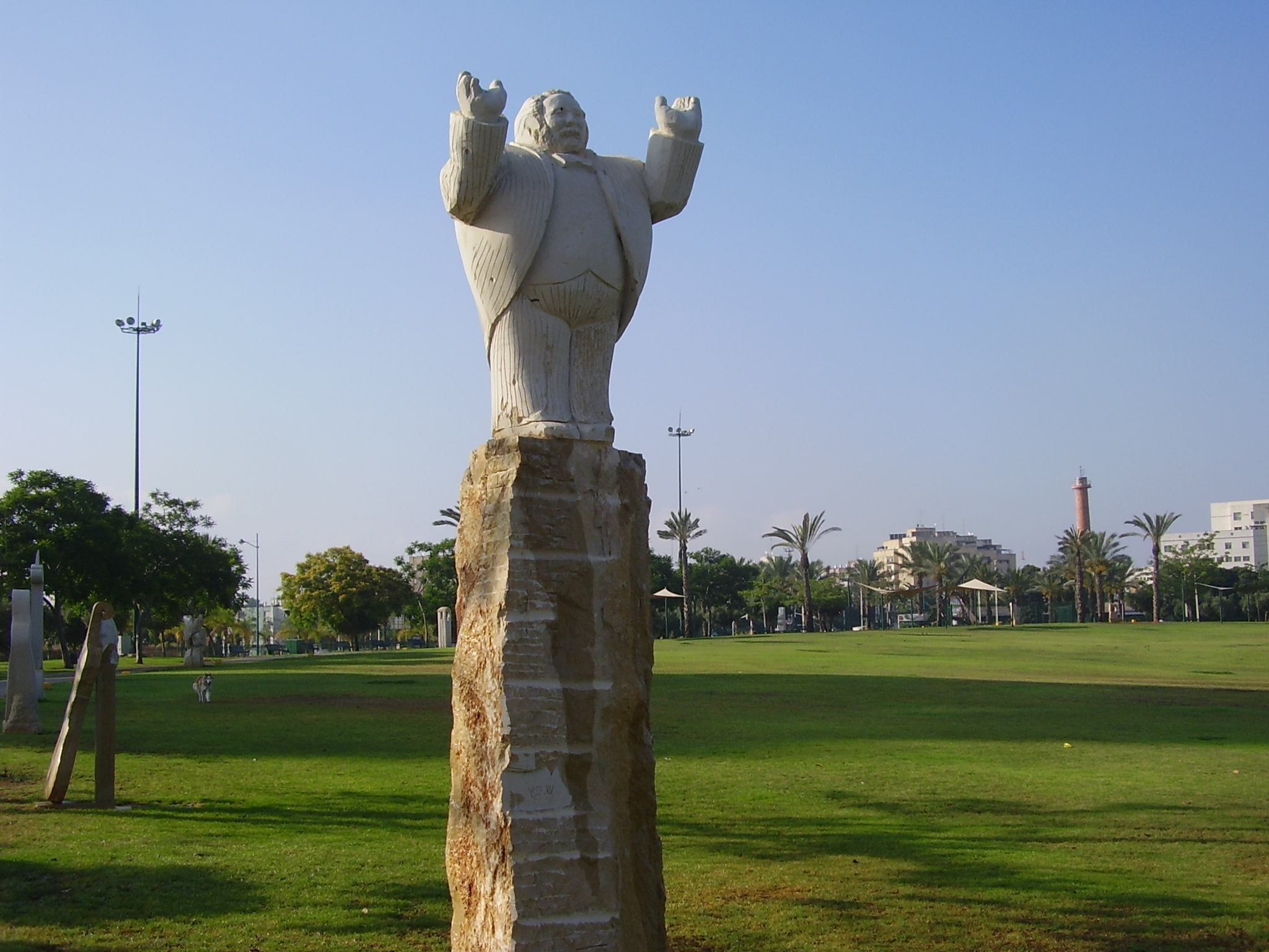 Homage to Luciano Pavarotti by Shlomo Katz, Petah Tikva, Israel